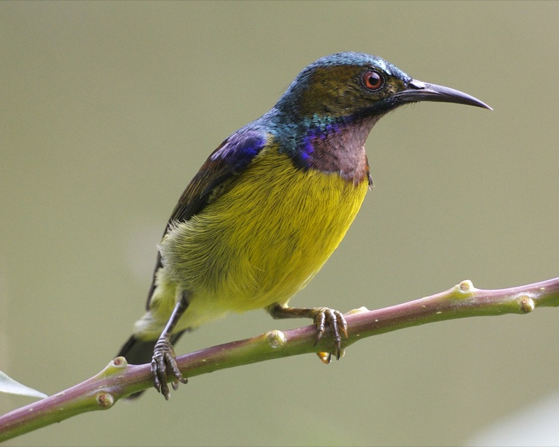 Plain-throated Sunbird - male Anthreptes malacensis ssp Anthreptes malacensis malacensis Residential garden, Merryn Road, Singapore 1st. November 2008 690V4892